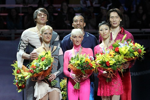 Tatiana VOLOSOZHAR and Maxim TRANKOV, Aliona SAVCHENKO and Robin SZOLKOWY, Qing PANG and Jian TONG at the 2011 World Figure Skating Championships